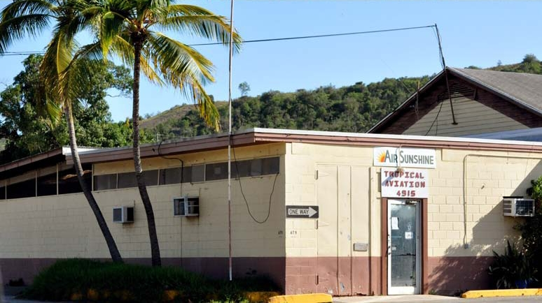 Air Sunshine flights are currently authorized to land at the airfield on base by a landing permit. That permit expires Oct. 31. Without a waiver, the flight service will no longer service GTMO.